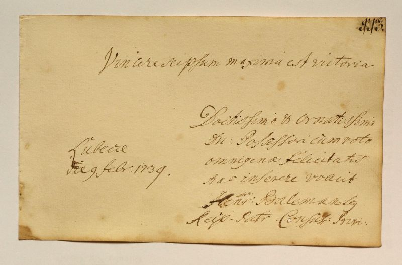 inscription of mayor Heinrich Balemann in Album amicorum of Johann Friedrich Behrendt, 1739 February 9